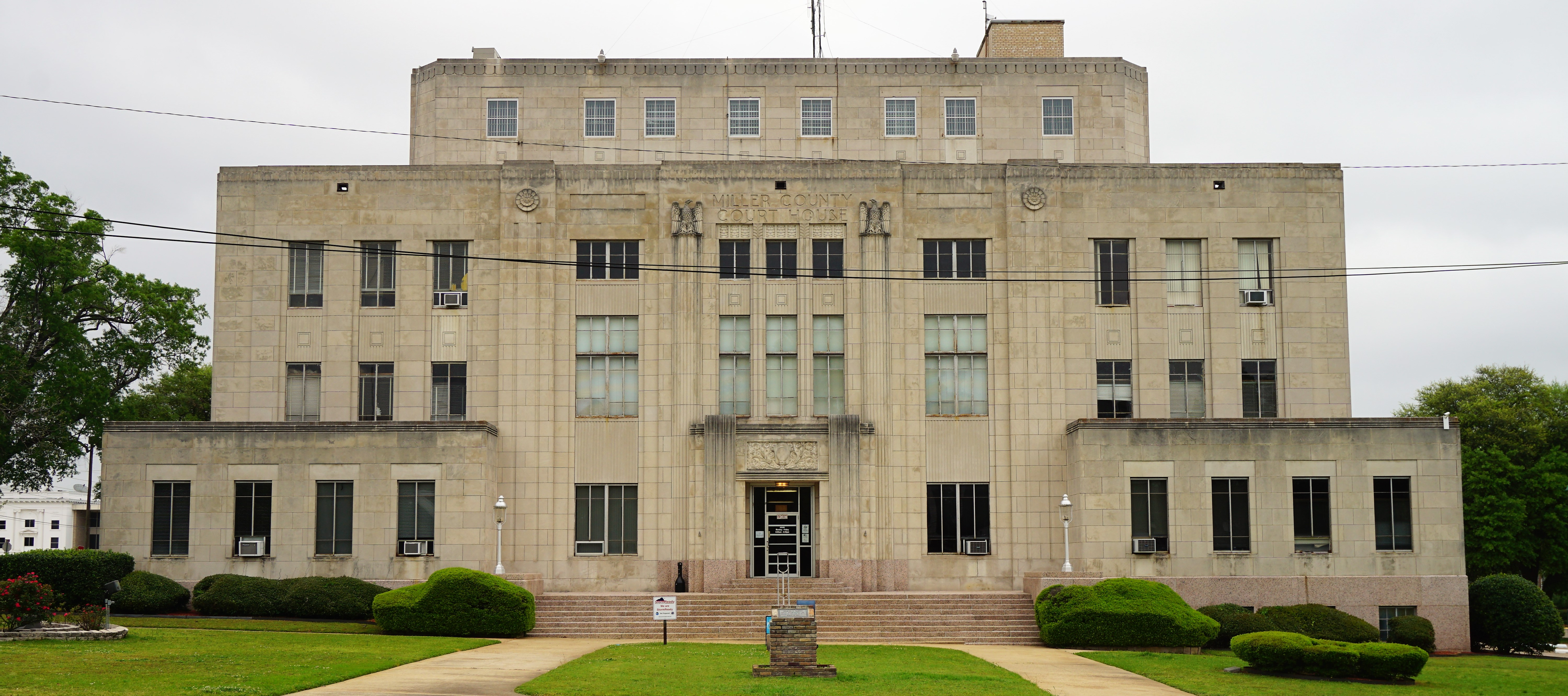 The Miller County Courthouse in Texarkana, Arkansas (United States).